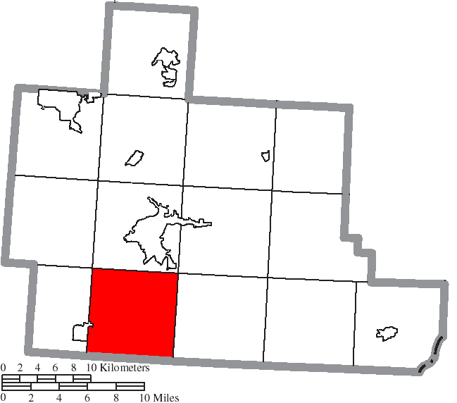 Map of the municipal and township boundaries of Athens County, Ohio, United States, as of the 2000 census, with the location of Alexander Township highlighted. Township borders are shown only in unincorporated areas in order to differentiate incorporated and unincorporated areas more clearly.